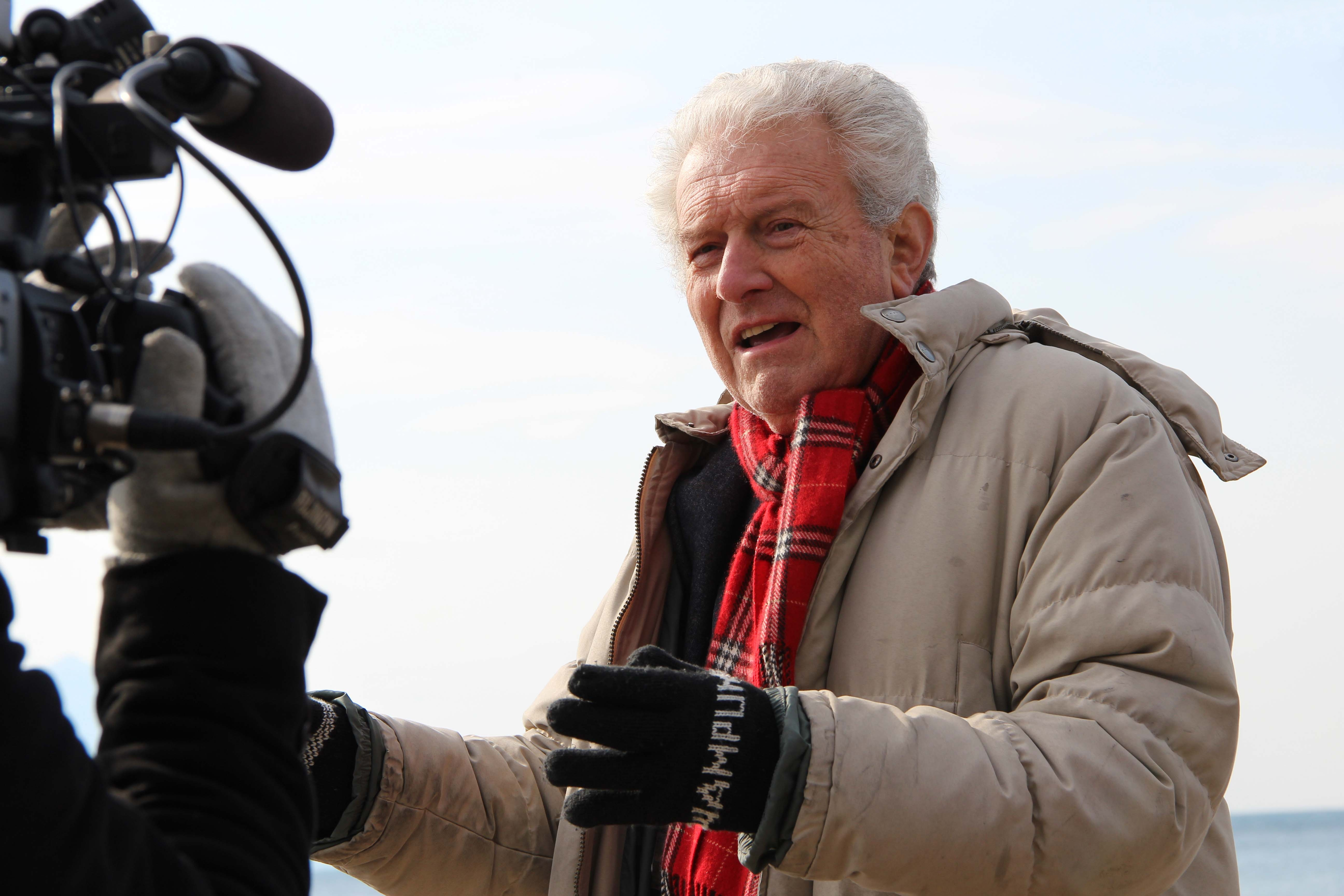 Giuseppe Ferrara during the filming of Mater Mediterranea